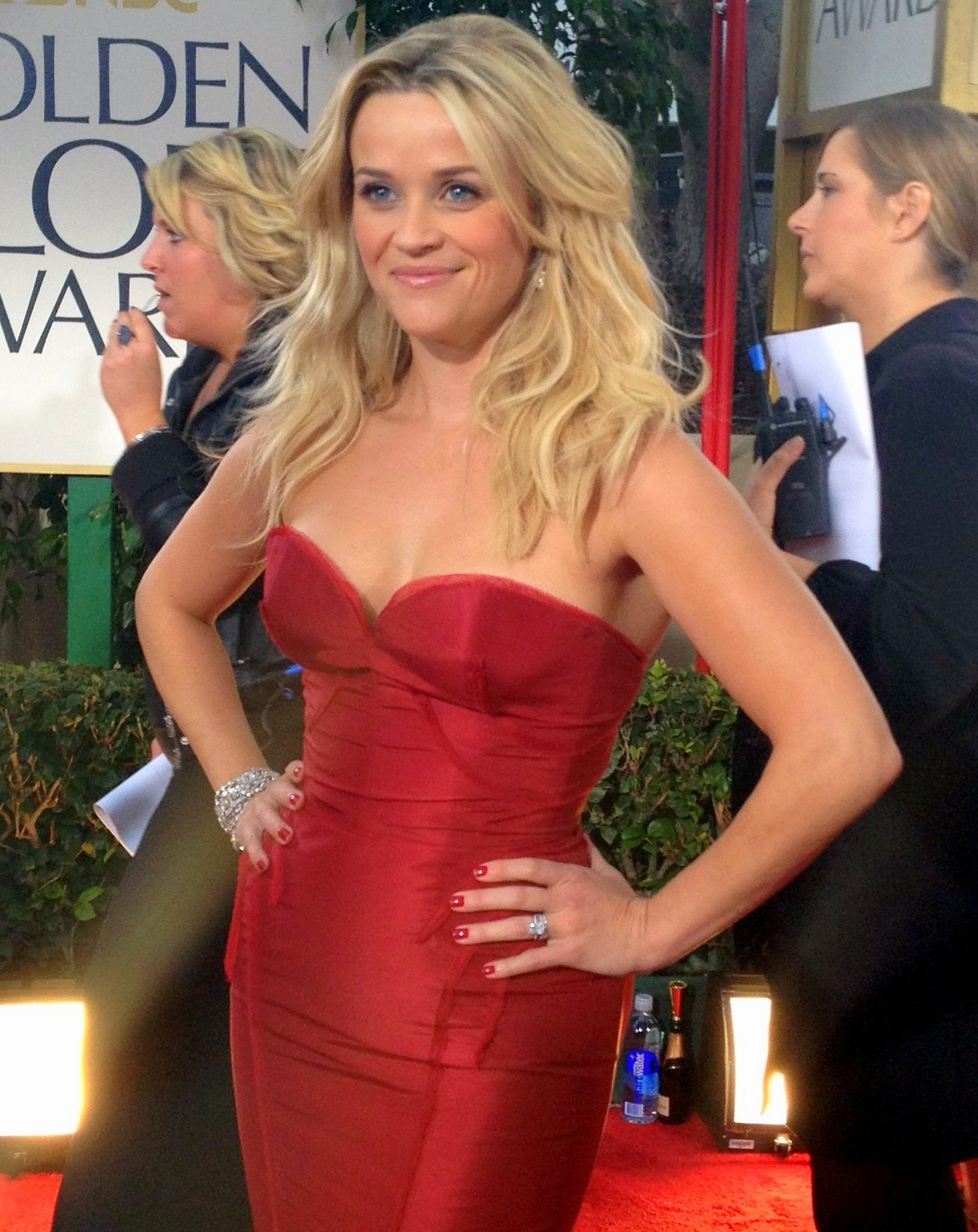 Reese Witherspoon at the 69th Annual Golden Globes Awards 2012.